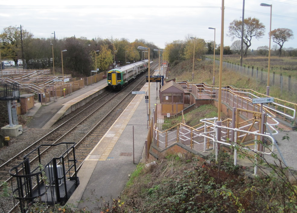 Whitlocks End railway station: Opened in 1936 by the Great Western Railway on the line from Birmingham Snow Hill to Stratford-on-Avon. View south towards Wythall and Stratford.